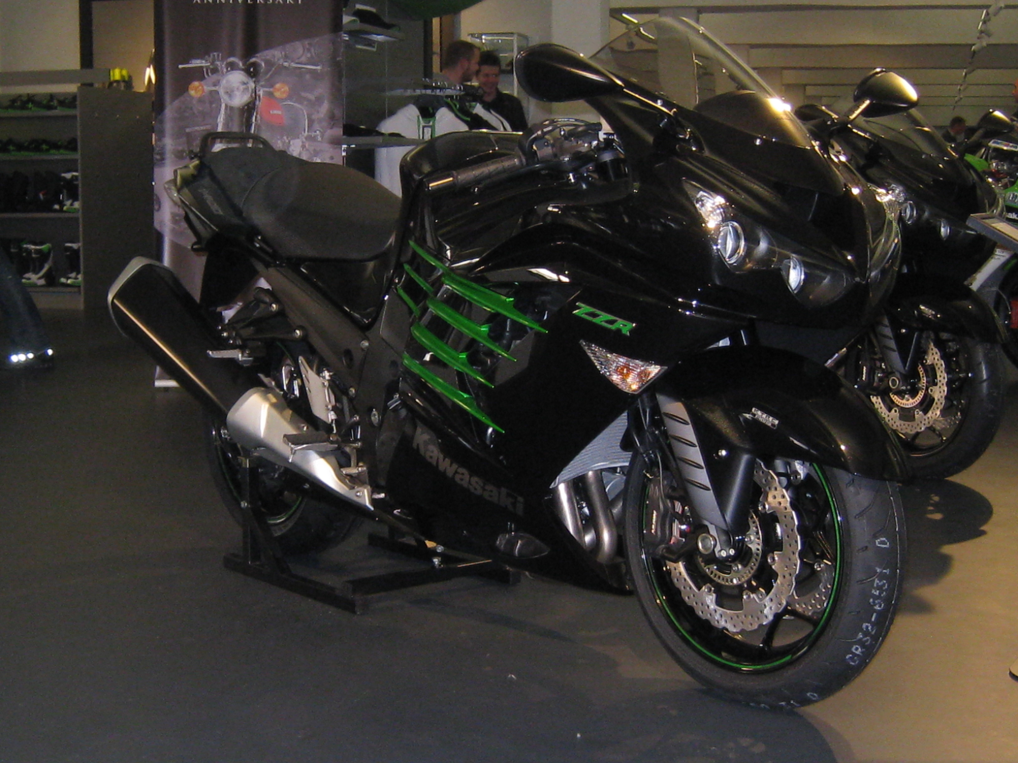 Kawasaki ZZR 1400